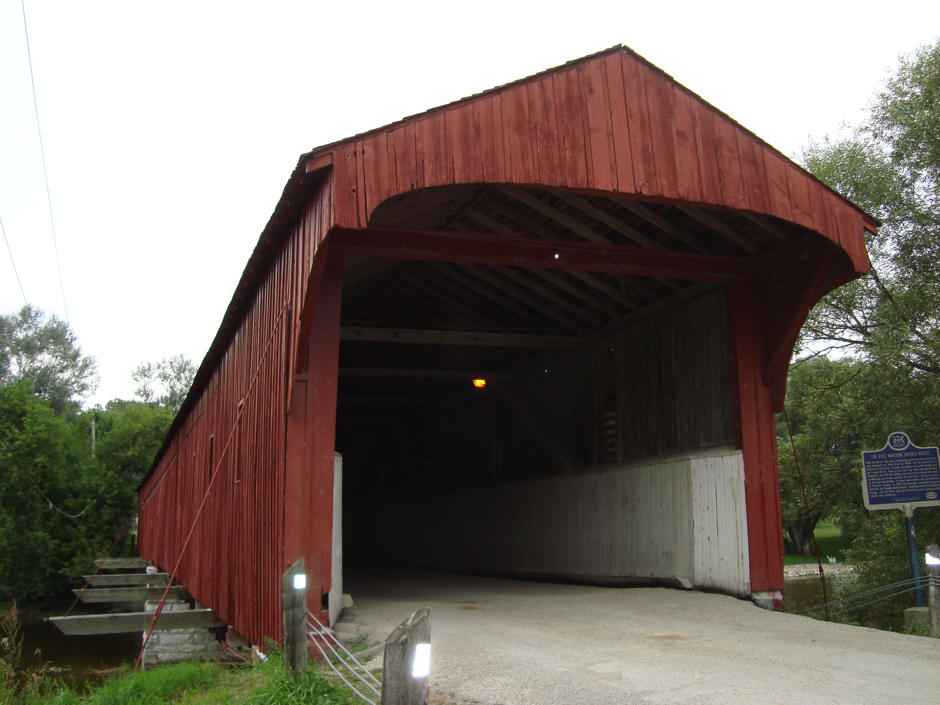 West Montrose Covered Bridge